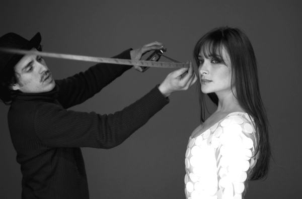 Nicole filming her videoclip "Hoy".